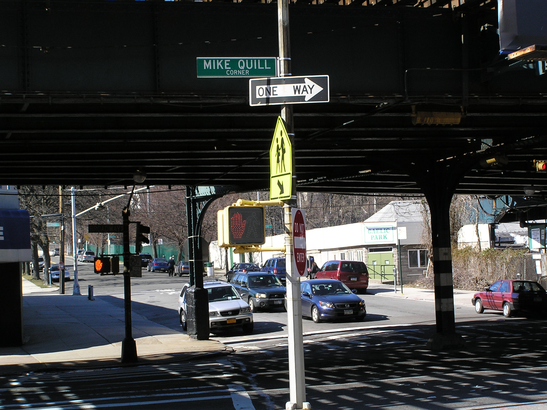 This photograph represents a tribute to Mike Quill, who was one of the founders of the Transport Workers Union. The photo was taken near the Number 1 subway line in Kinsgbridge.